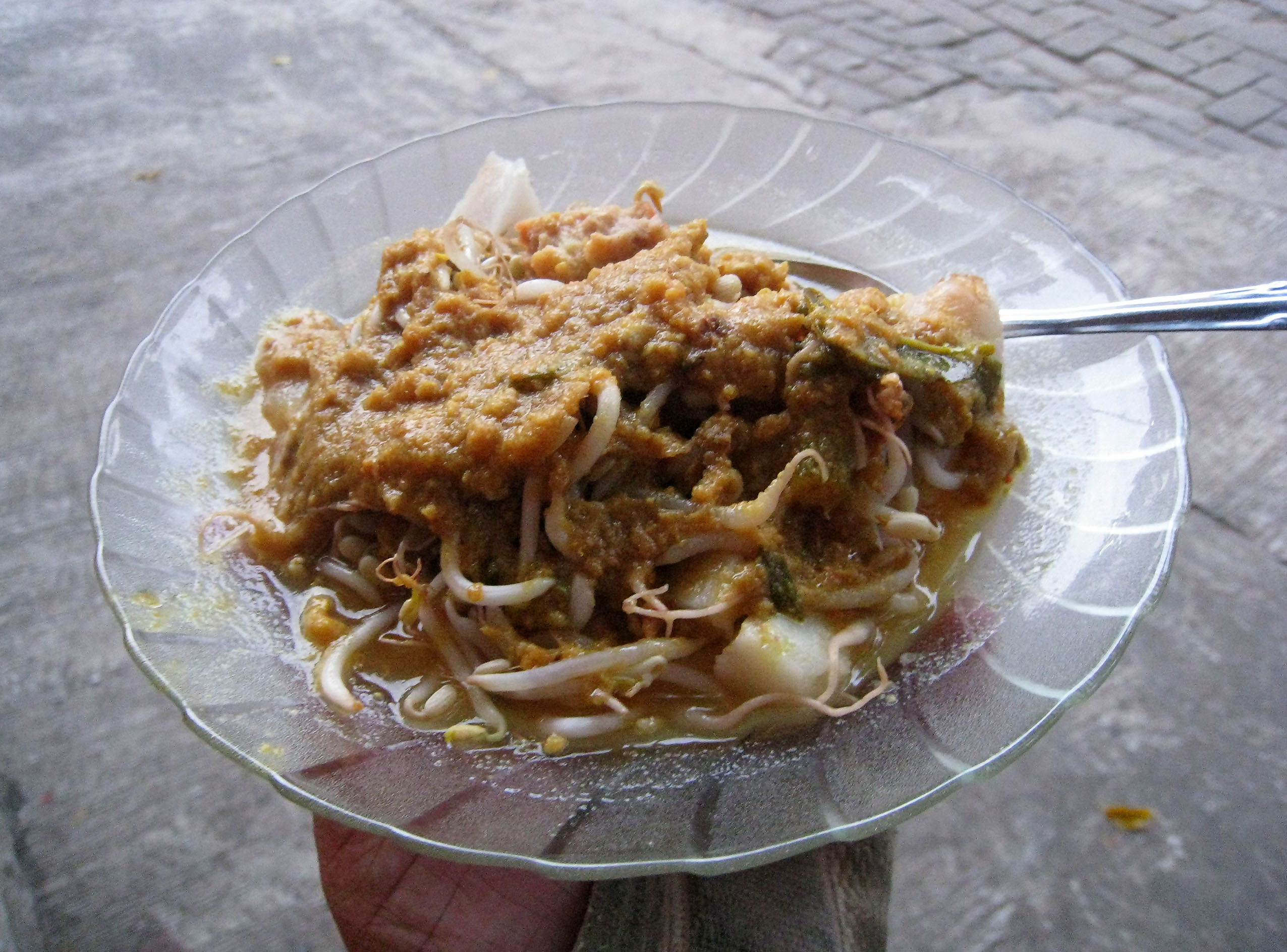 Tauge goreng, or fried beansprout with ketupat rice cake served in oncom-based sauce. A street food in Jakarta, Indonesia.